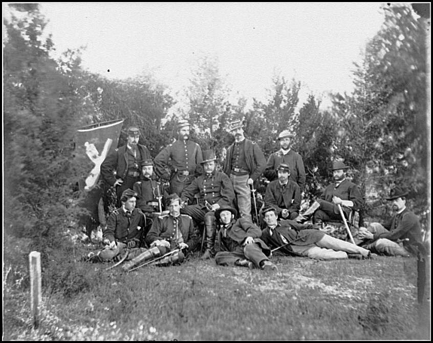 Title: Culpeper, Va. Gen Robert O. Tyler and staff of the Artillery Reserve; another view Abstract: Selected Civil War photographs, 1861-1865 (Library of Congress) Physical description: 1 negative